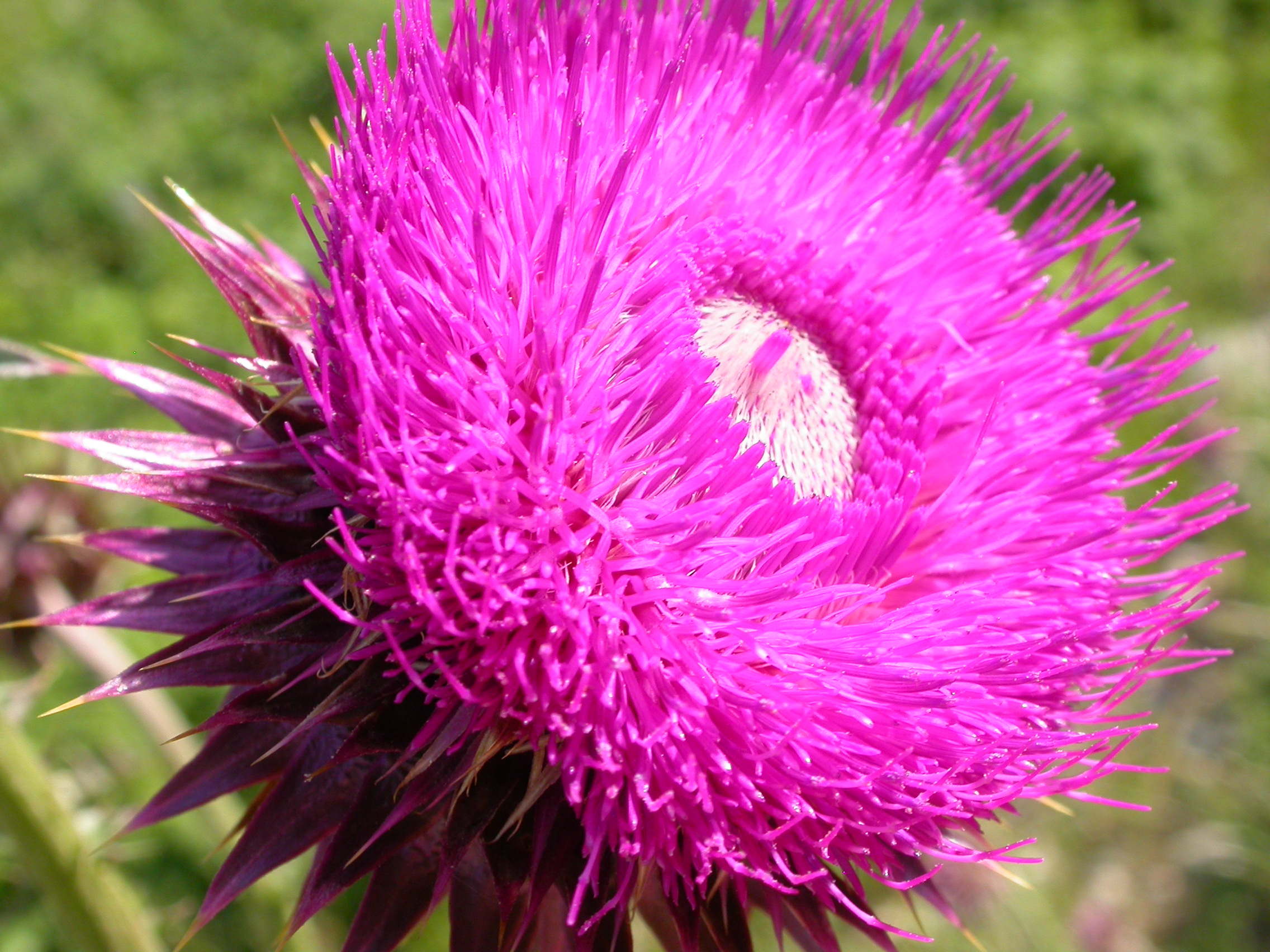 The broad recurved bracts surrounding the purplish flowers is diagnostic of the heads of musk thistle.